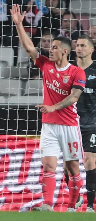 Benfica-Zenit UEFA Champions League 2019/20 (10/12/2019)